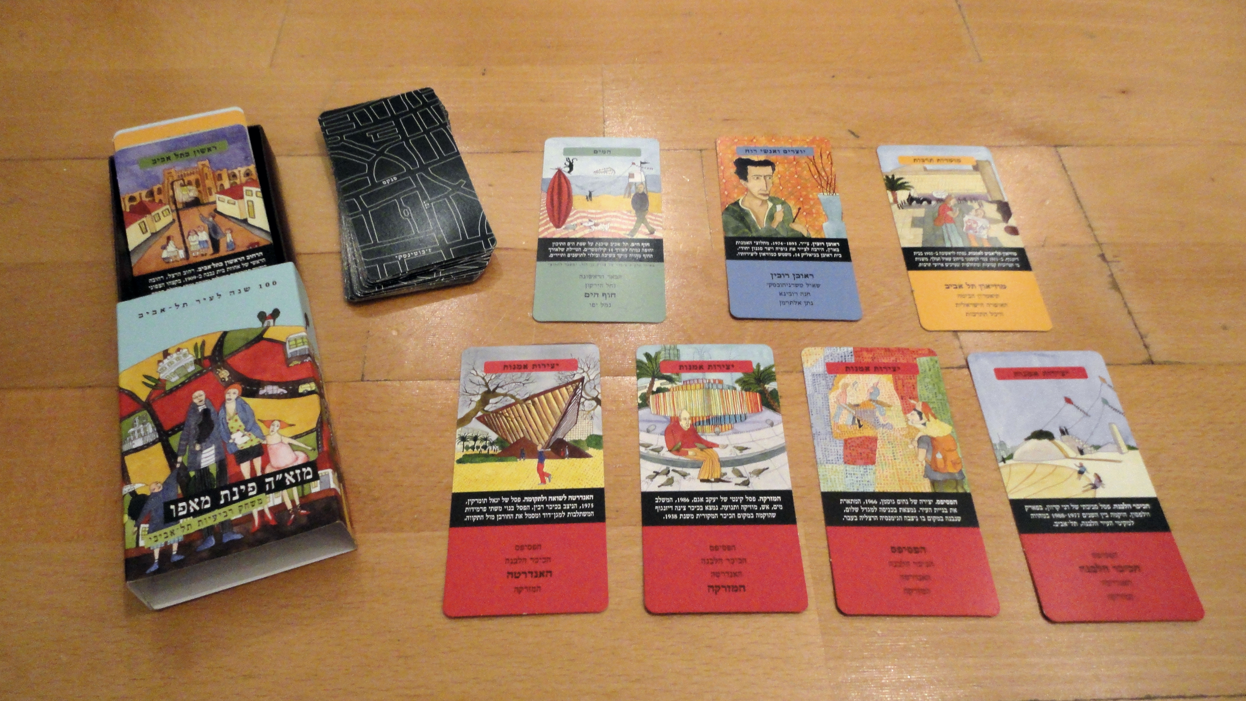 game card with tel Aviv illustations